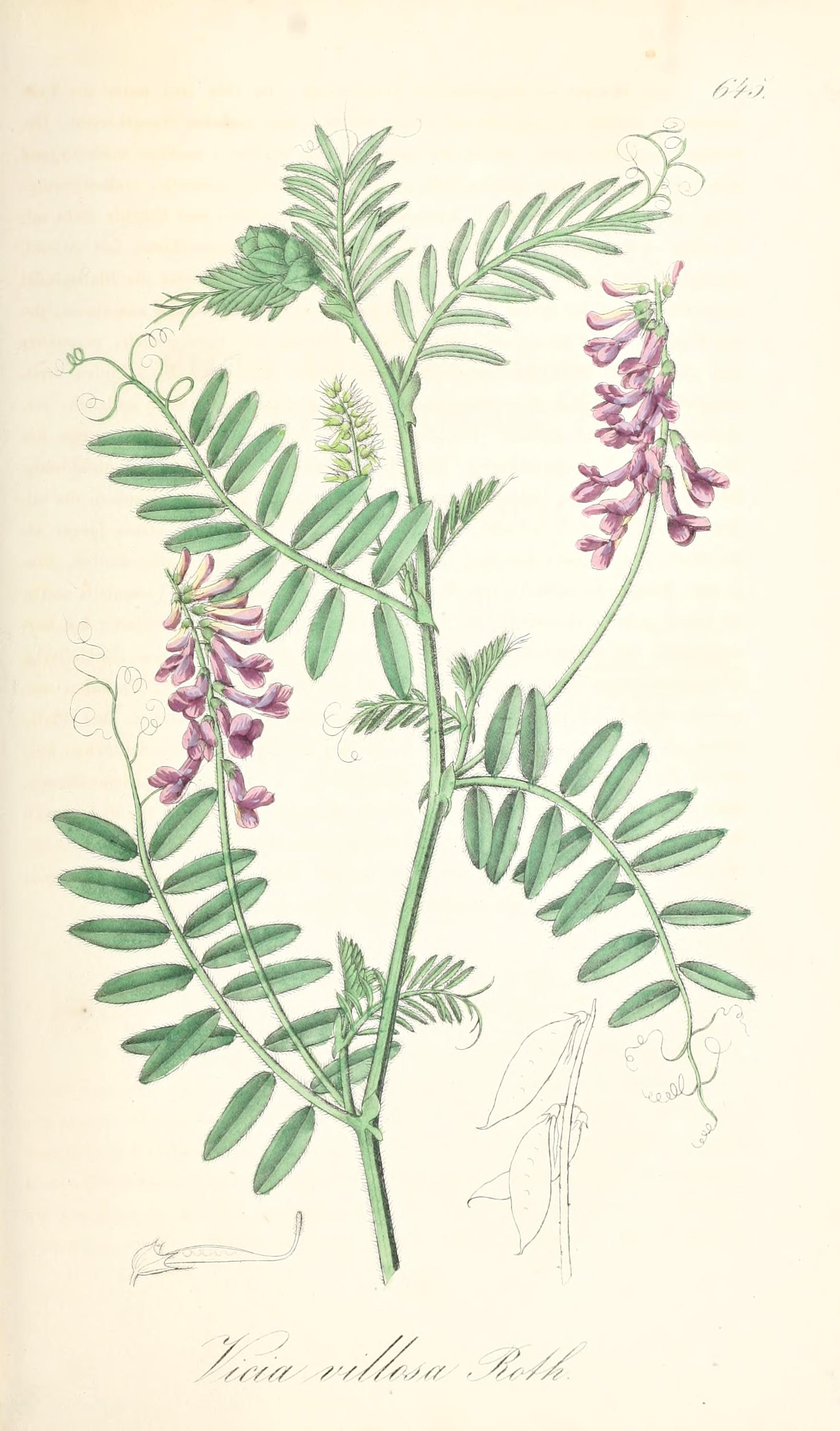 Illustration of Vicia villosa Roth